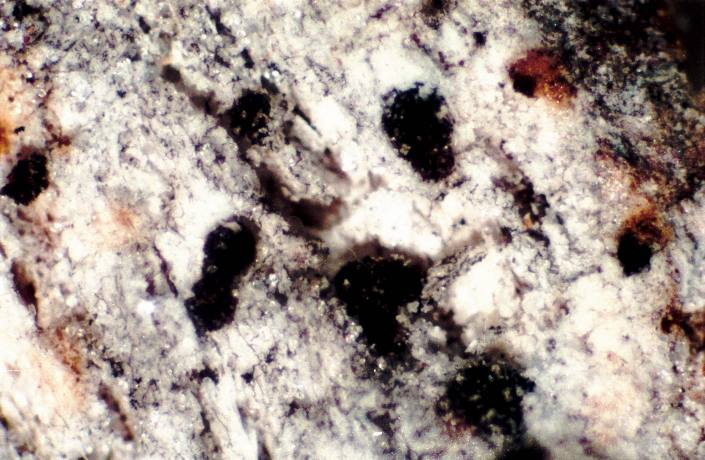 Arthothelium spectabile (Flot.) A. Massal., 1852 Photograph of a herbarium specimen of A. spectabile taken through a dissecting microscope (x40), showing a scant whitish thallus and blackish lirellae. This specimen of Arthothelium spectabile was growing on old decorticated wood along the Parkman Trail at Acadia National Park, in Maine, USA. Collected and identified by E.C. Uebel (No. U-75, 10 Jun 2001).